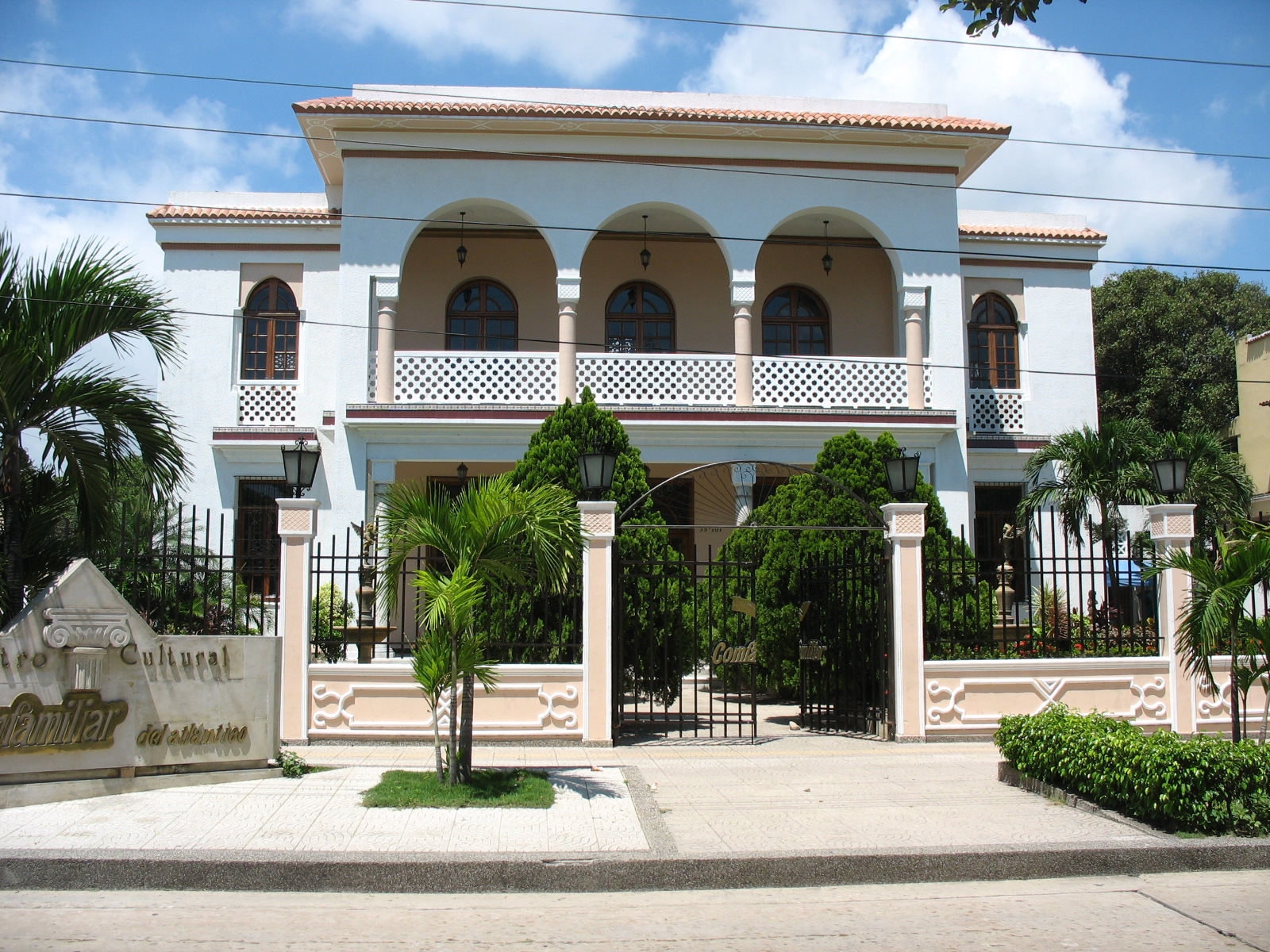 Centro Cultural Comfamiliar